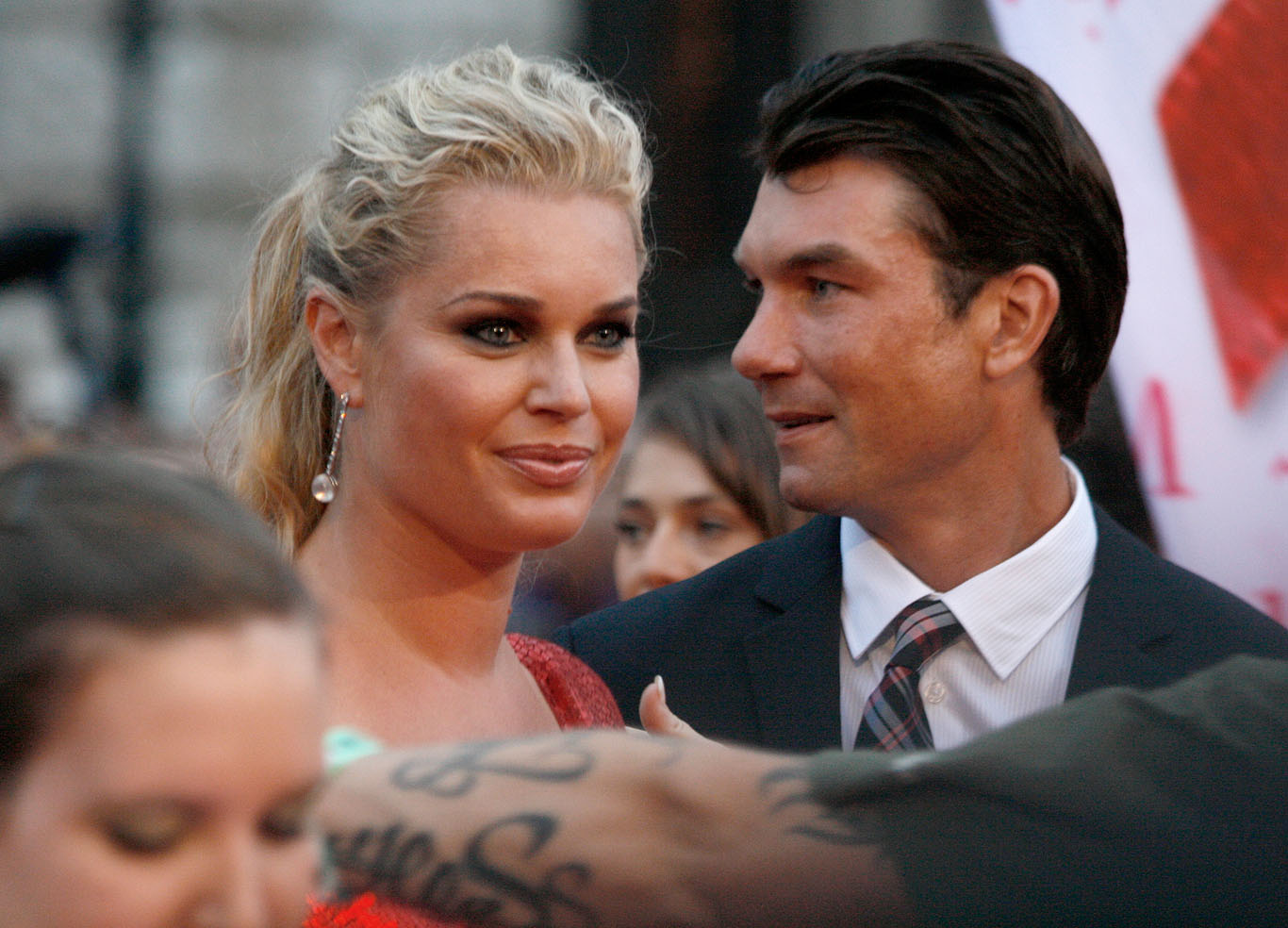 Rebecca Romijn and Jerry O'Connell on the red carpet of the Life Ball 2010.